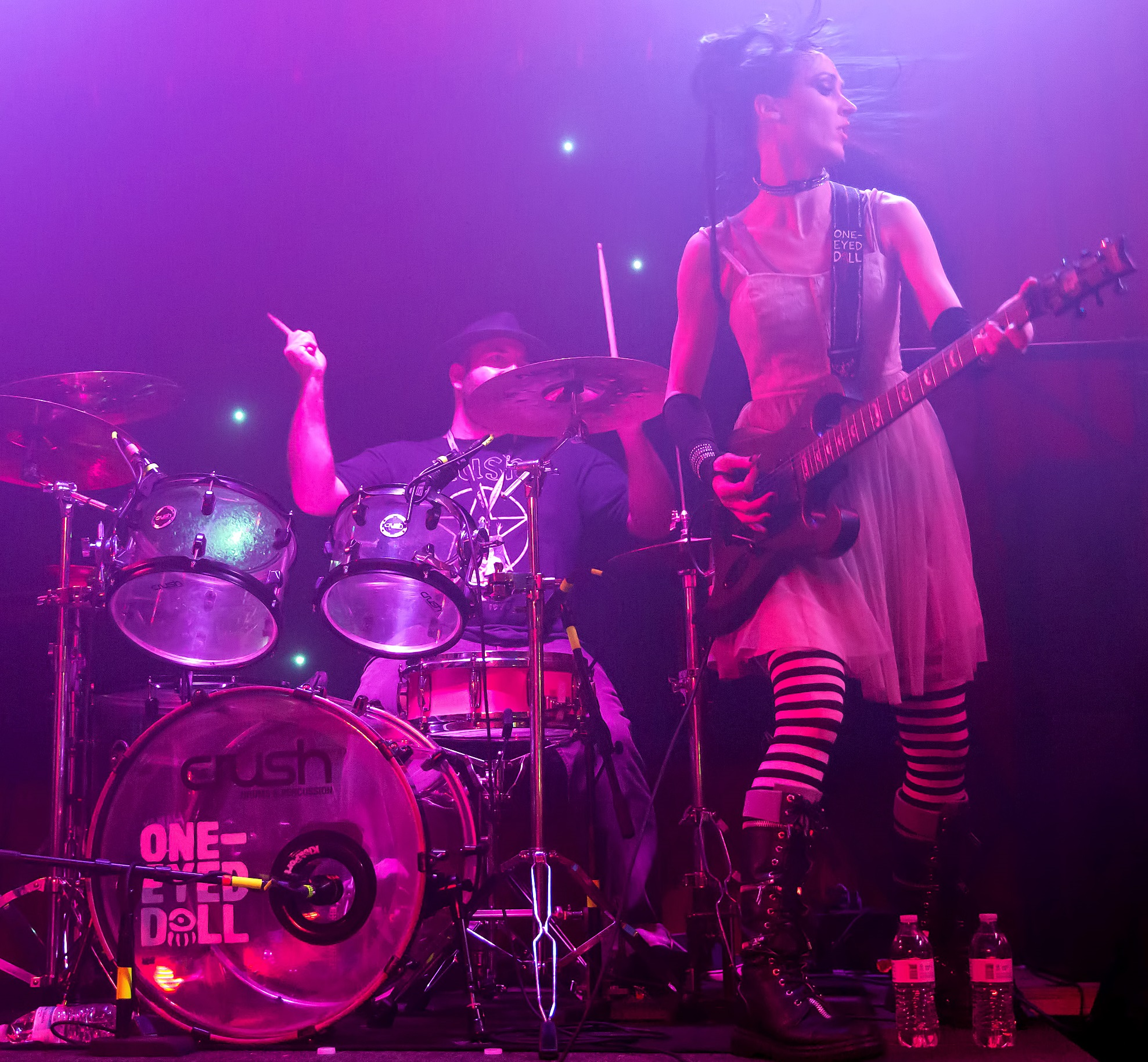 One-Eyed Doll performing at Fitzgerald's Bar & Live Music in San Antonio, Texas, Texas, 2015-03-11. Flickr Tags: One-Eyed Doll Kimberly Freeman Jason Rufuss Sewell San Antonio Texas music concert.